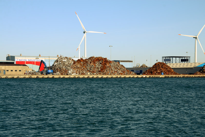 Scrapyard in the port of Frederikshavn, Denmark.